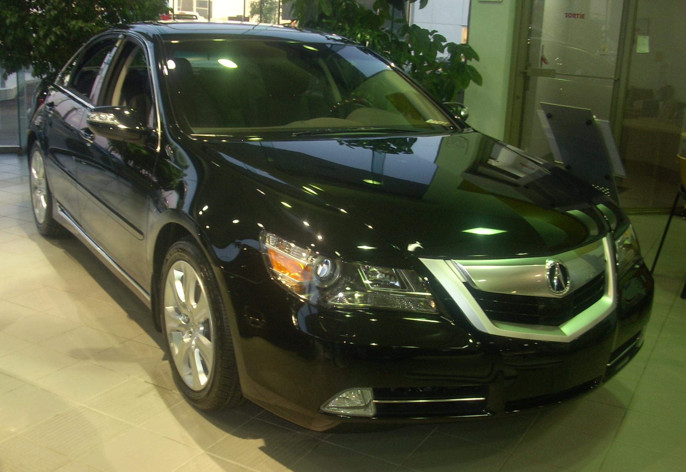 2009 Acura RL photographed in Montreal, Quebec, Canada.